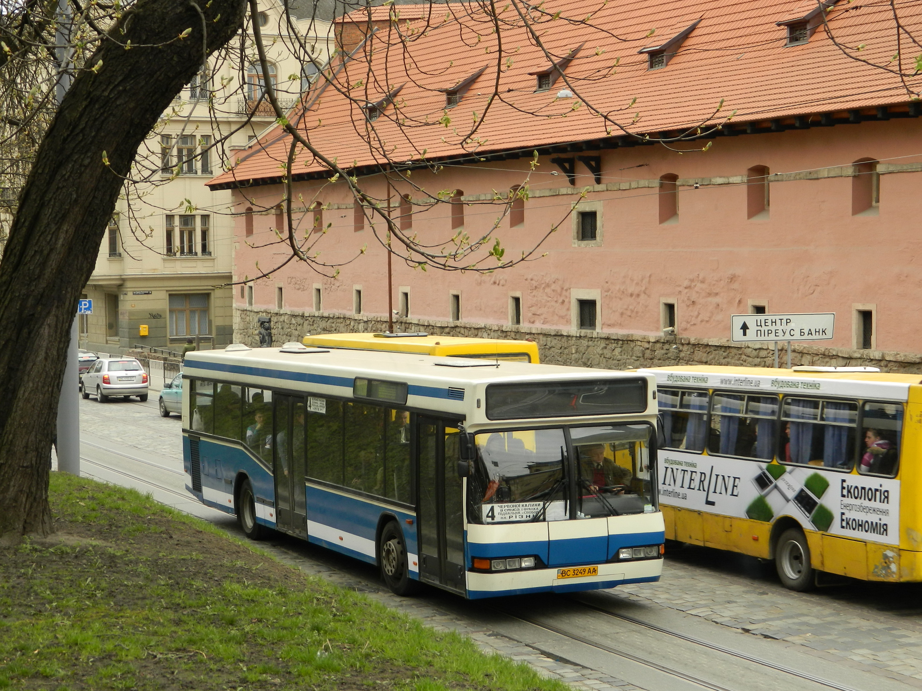 Neoplan N4016LF bus in Lviv, pt №BC 3249 AA